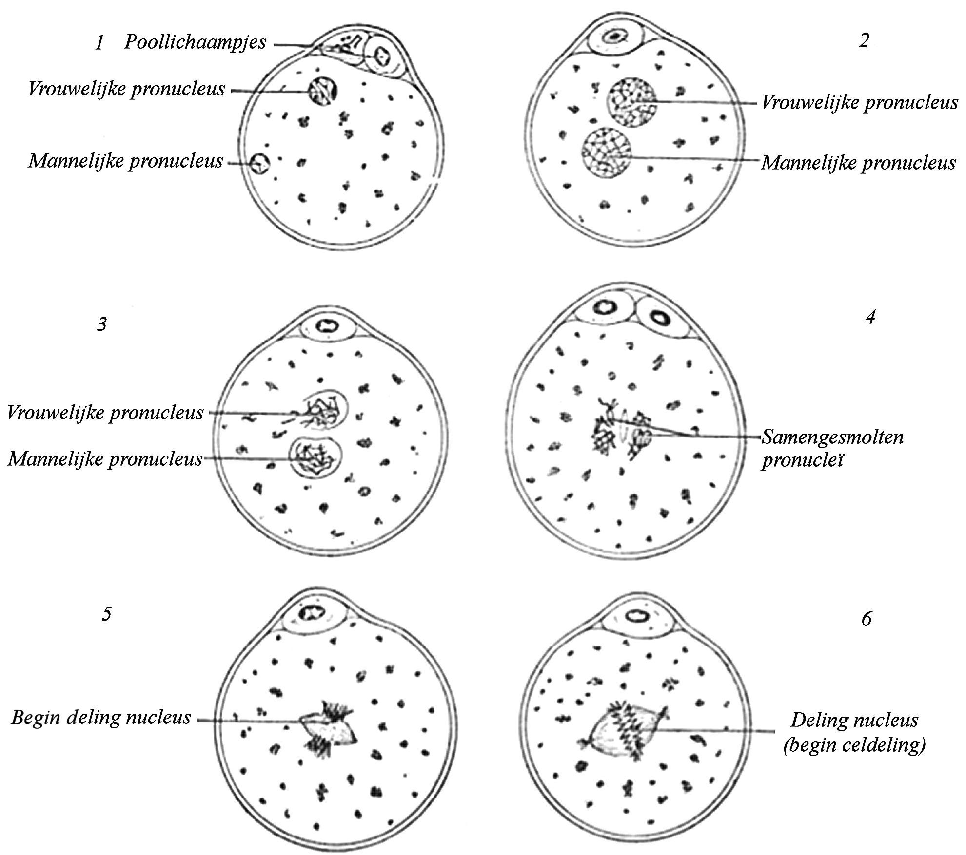 The process of fertilization in the ovum of a mouse. (After Sobotta.)